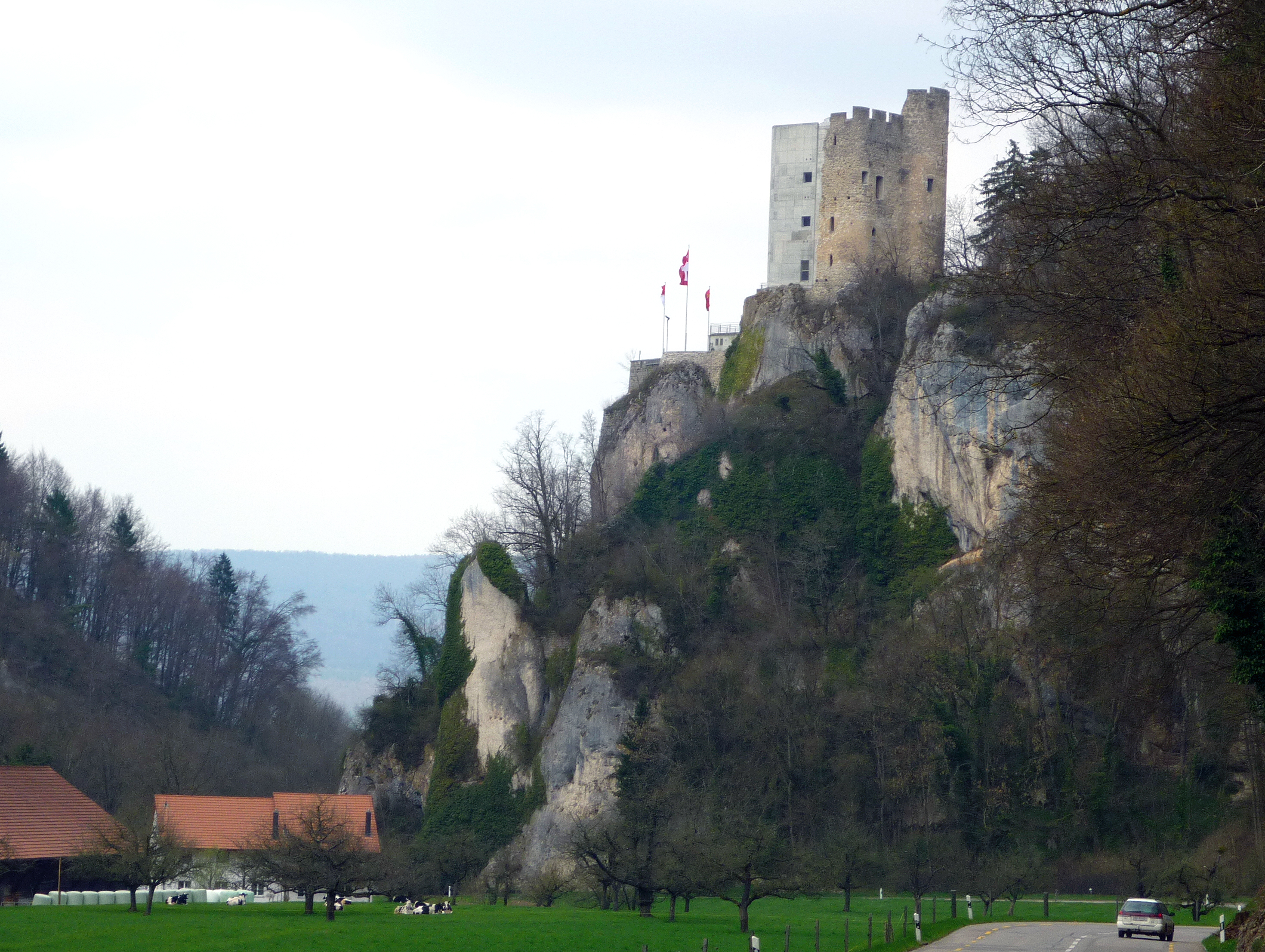 Neu-Thierstein castle, Canton of Solothurn, Switzerland, seen from the Erschwil side. The Passwang road is also visible below.